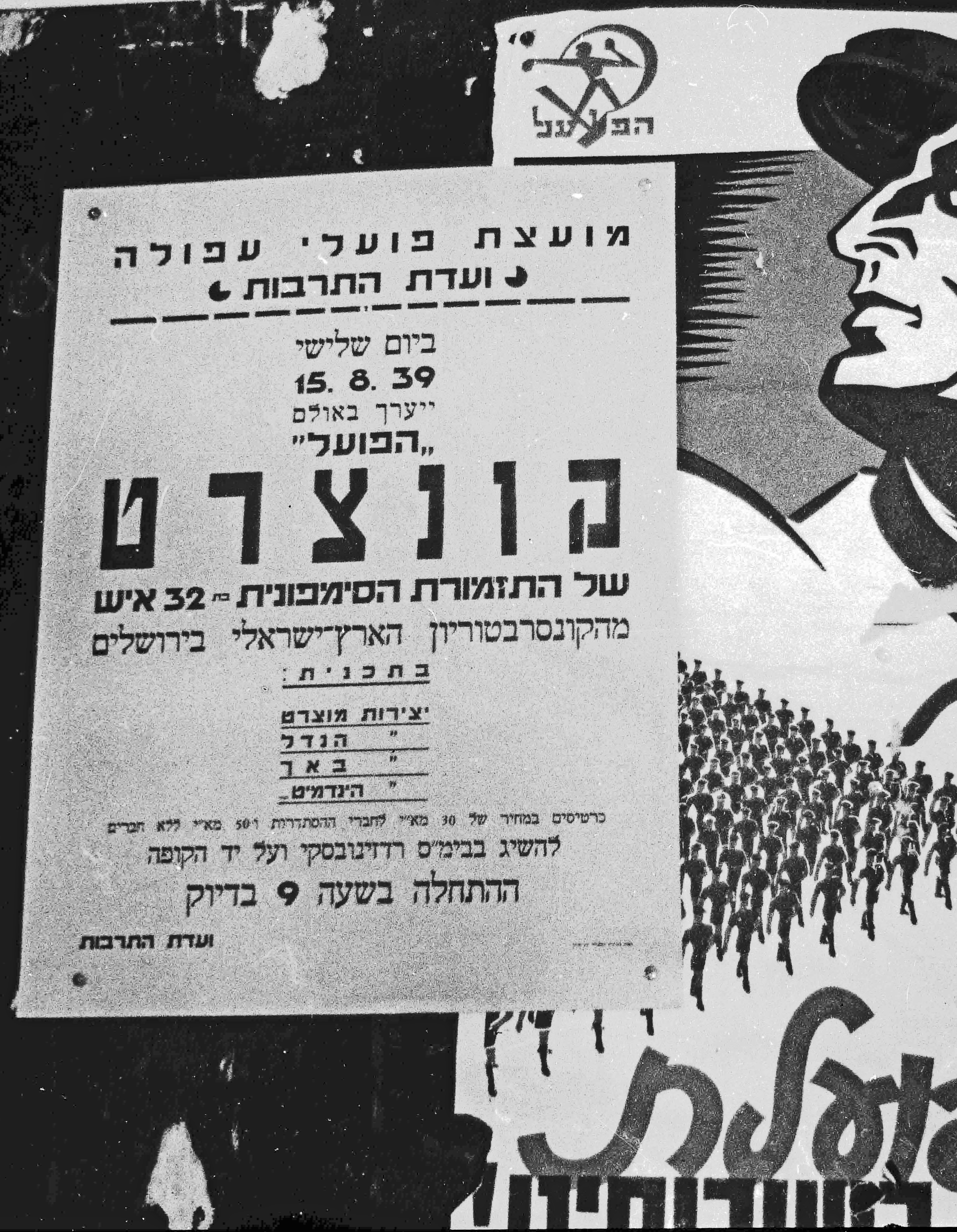 Poster in Afula (Israel) announcing a concert of the Palestine Conservatoire of Music Orchestra (1939).